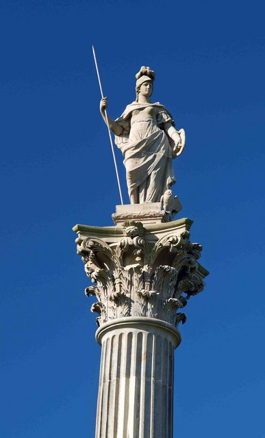 Minerva the Goddess of Wisdom and Statecraft See 993561 for more details of the Duke of Argyll's monument in the grounds of Wentworth Castle.